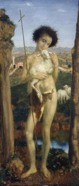 Saint John the Baptist